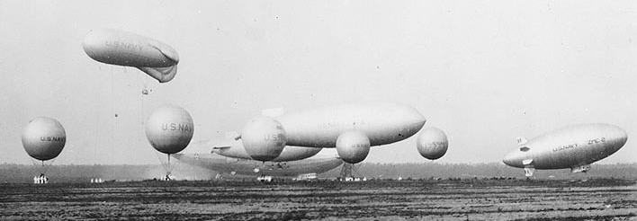 U.S. Navy blimps at the Naval Air Station in Lakehurst, New Jersey (USA), during what appears to be a demonstration, in 1930-1931. Among the craft present are a kite balloon (upper craft at left), five free balloons, the USS Los Angeles (ZR-3) in the middle distance, blimp J-4 and and another J-class blimp in the center, and metalclad airship ZMC-2 at right.